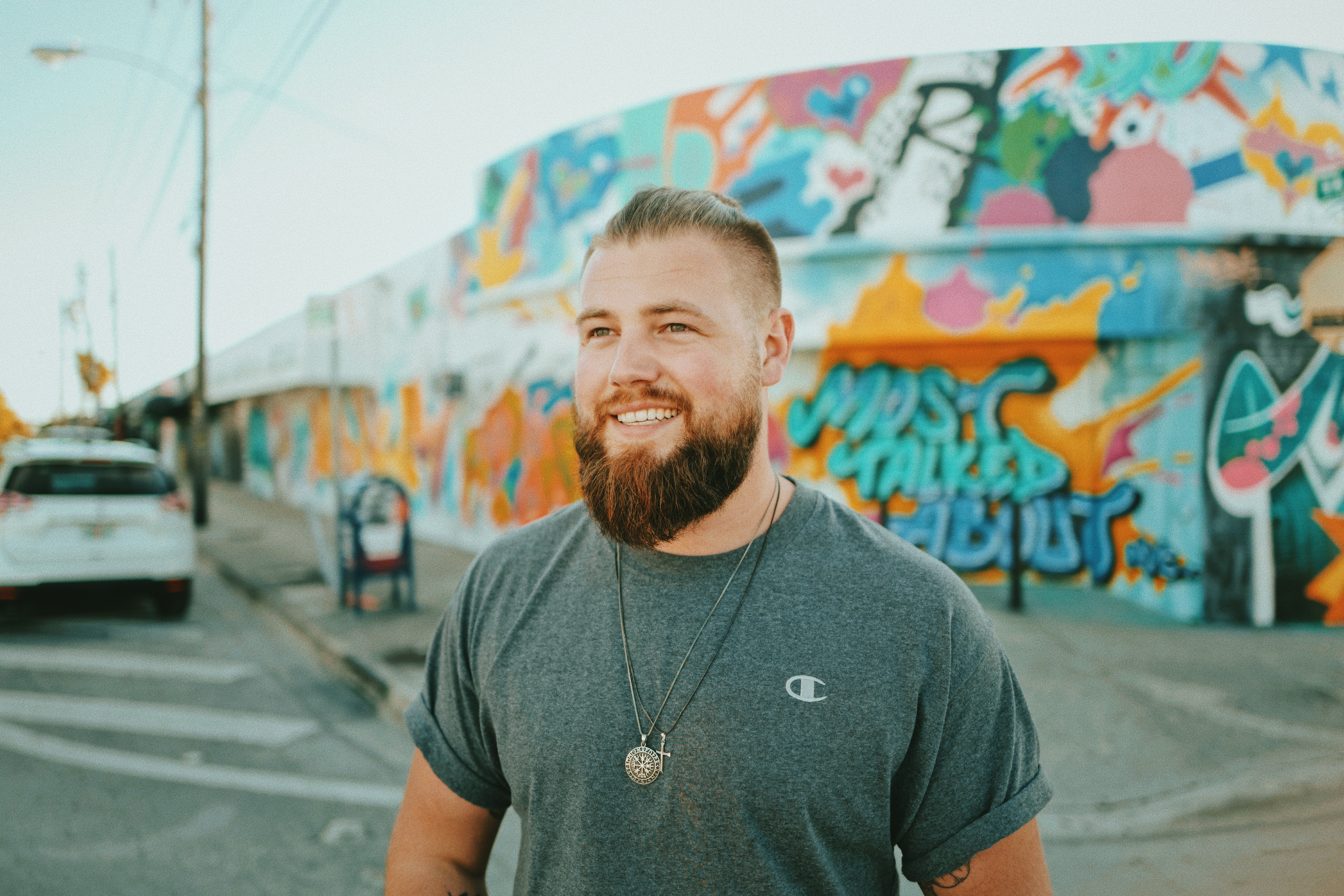 Pressefoto von Cymo